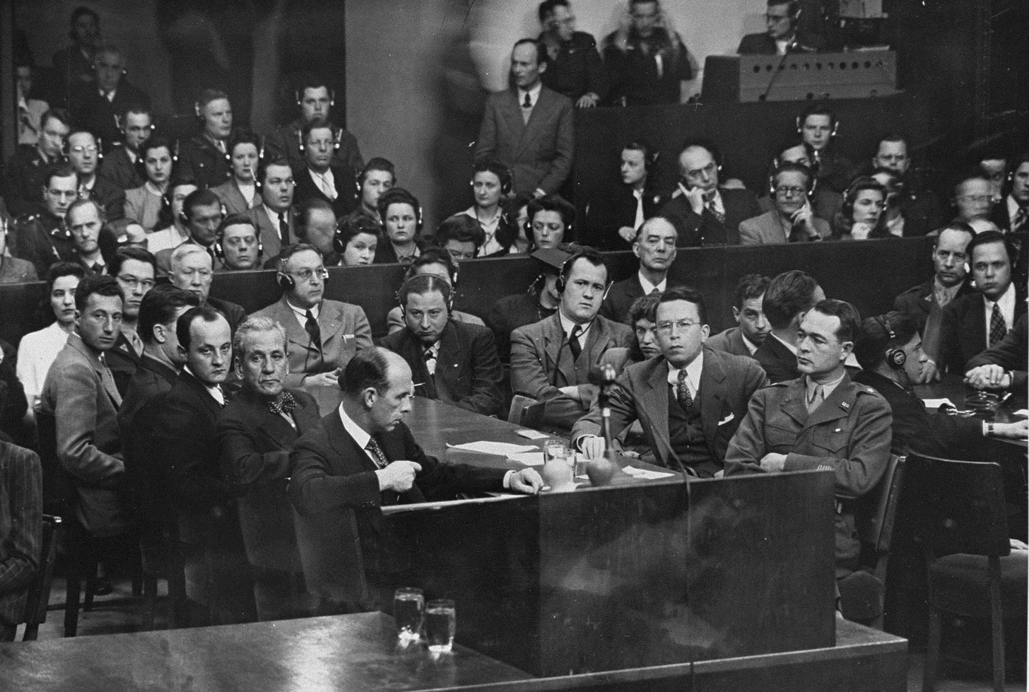 (The prosecution team in the Milch Trial. Front right is Brigadier General Telford Taylor. To his right, attorney Henry T. King, Jr. Across from Taylor is Clark Denny. Image from .